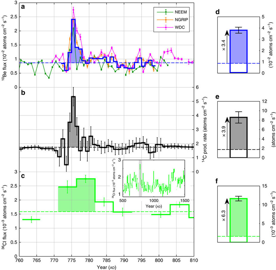 The AD 774/5 event in view of 10Be, 14C and 36Cl. Time series for AD 760–810 (a) of 10Be flux from the NEEM-2011-S1, NGRIP and WDC ice cores in addition to the inferred average 10Be flux (thick blue curve), (b) of modelled 14C production rate based on previously published measurements12 and (c) of 36Cl flux21 in addition to an inset with a longer series spanning AD 500–1500 for 36Cl where the grey rectangle represents the time slice investigated. The dashed lines represent the natural background levels which are set as the average values prior to and following the filled areas. The filled areas represent the estimated production enhancements caused by the cosmic-ray event of AD 774/5. The 10Be and 36Cl series have been corrected for a temporal offset between ice-core and tree-ring chronologies (Methods). The right panel shows radionuclide production enhancements caused by the AD 774/5 event in atoms cm−2 s−1 for 1 year for (d) 10Be, (e) 14C and (f) 36Cl. The radionuclide increases are illustrated with arrows corresponding to the ratio between the inferred flux/production enhancements stacked over 1 year (coloured rectangles) and the estimated background levels (white rectangles). Uncertainties are based on error propagation including measurement errors and a background variability of 1σ.